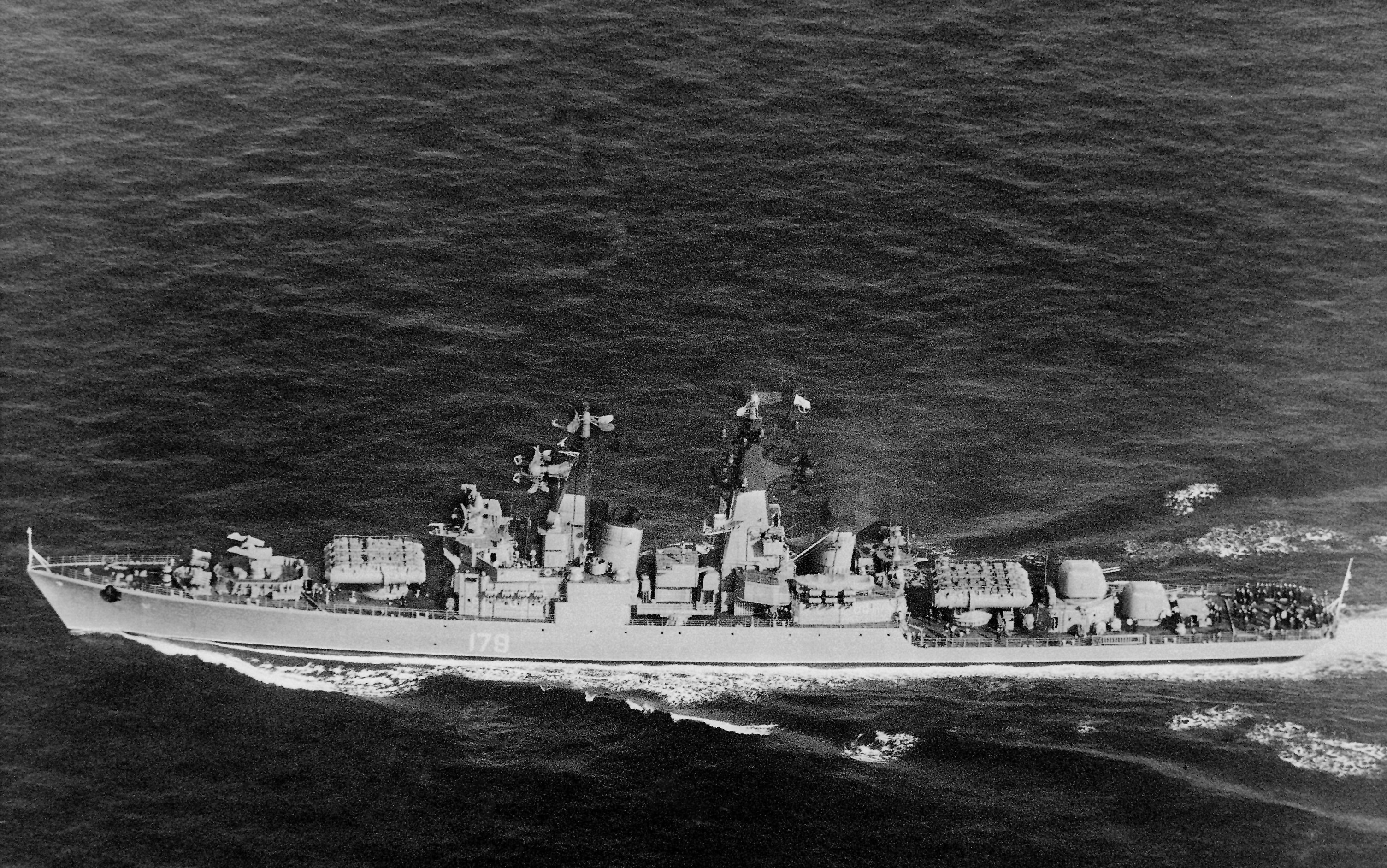 An elevated port beam view of the Soviet Kynda class guided missile cruiser Groznyy underway. (Source did not indicate the ship's name.)